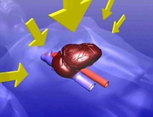 Illustration of the direction of pressure from both cardiac and thoracic chect compressions on the heart